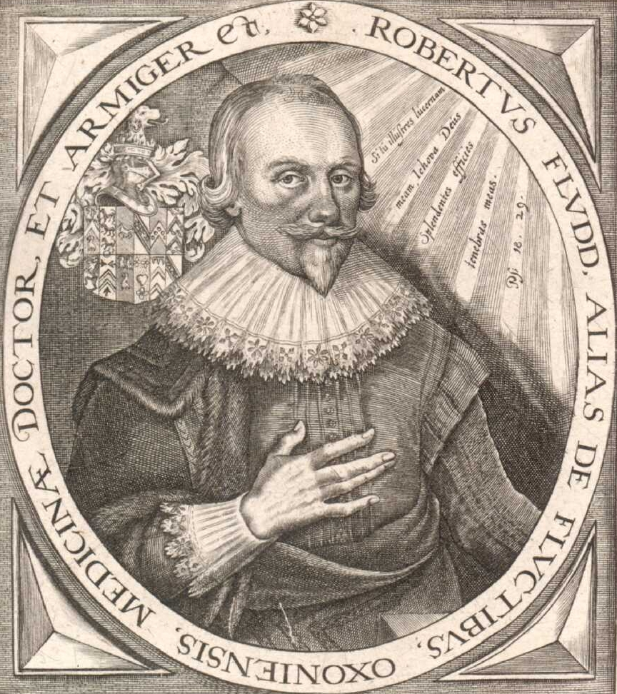 English physicist, astrologer, and mystic.